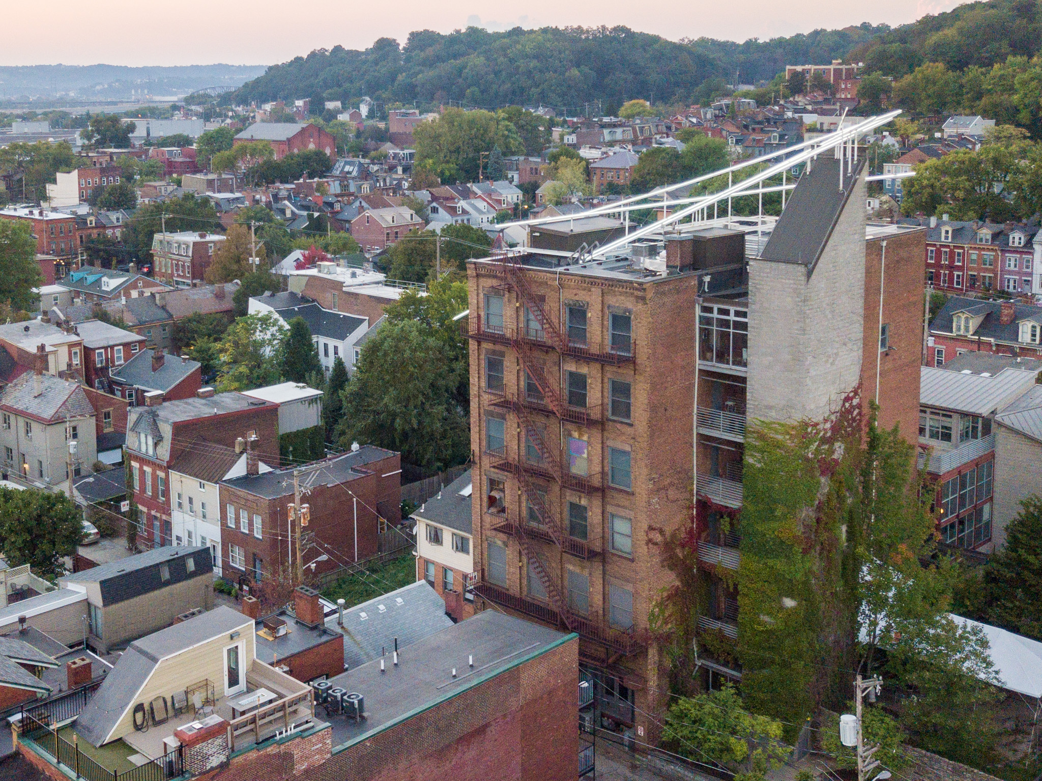 The Mattress Factory main building with light installation "Acupuncture" by Hans Peter Kuhn.